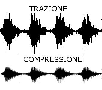 Barkhausen noise signal under traction and compression